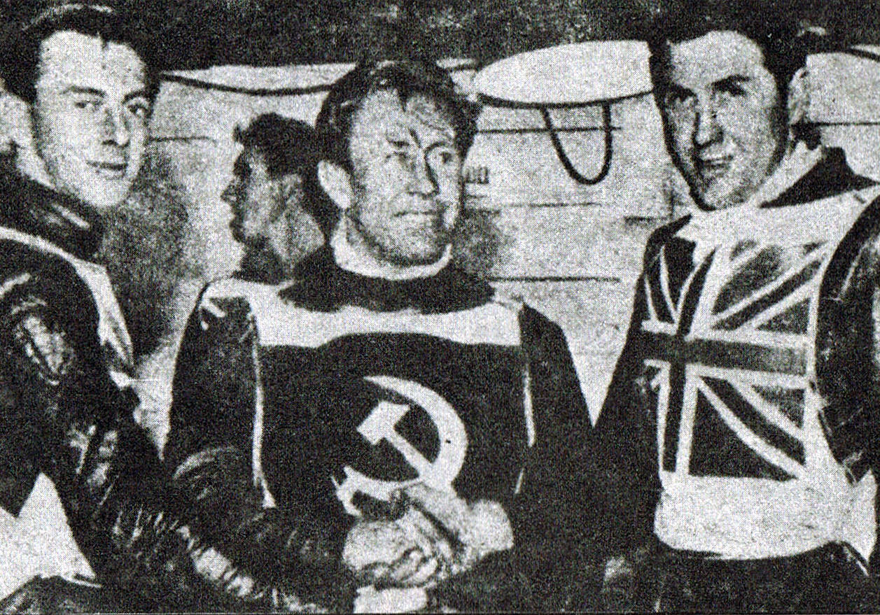 Moore, Plechanow, Briggs. Speedway.